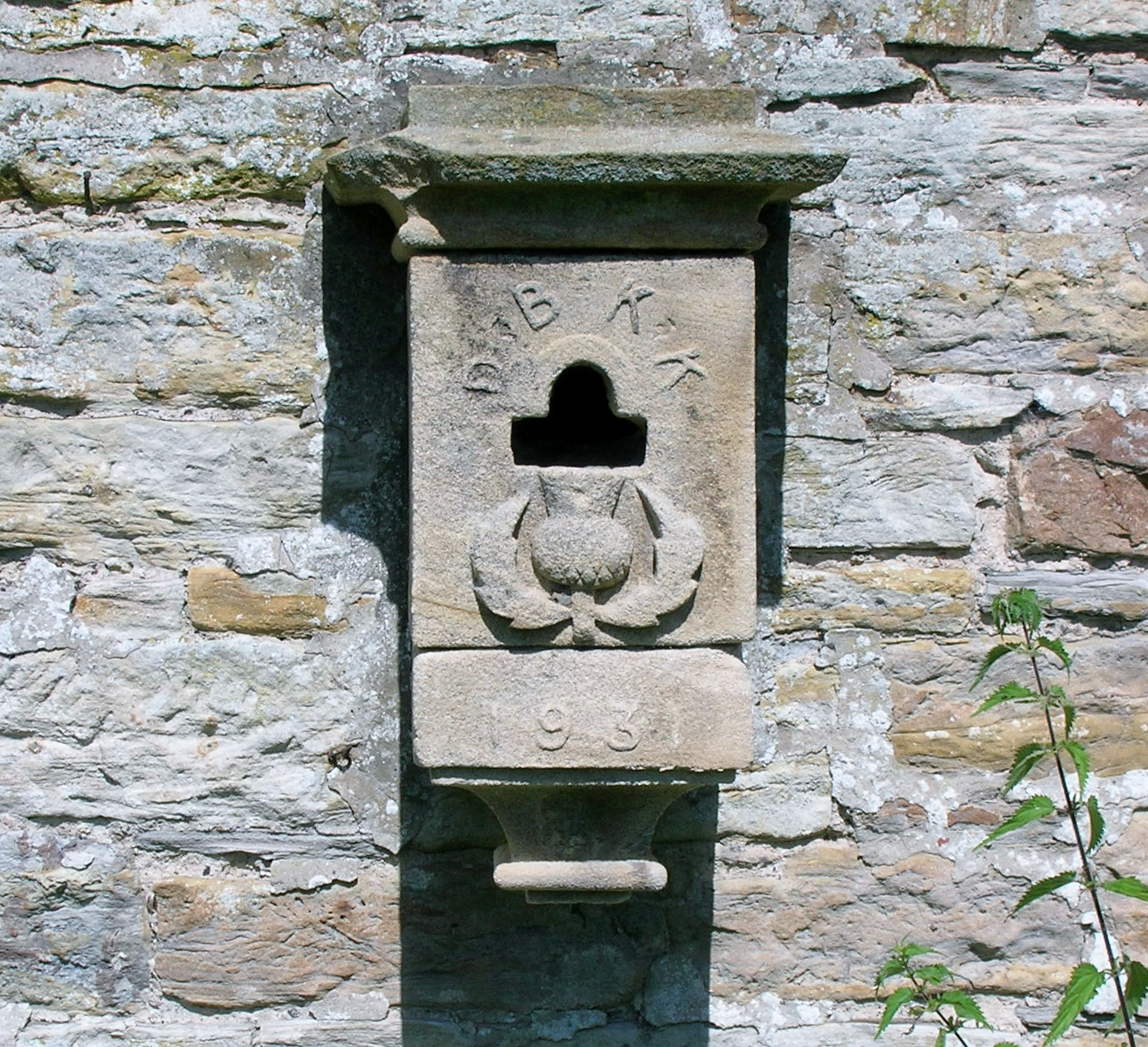 DB KK 1931 inscribed on a fountain spout - Ryefield House walled garden, Drakemyre, North Ayrshire, Scotland.